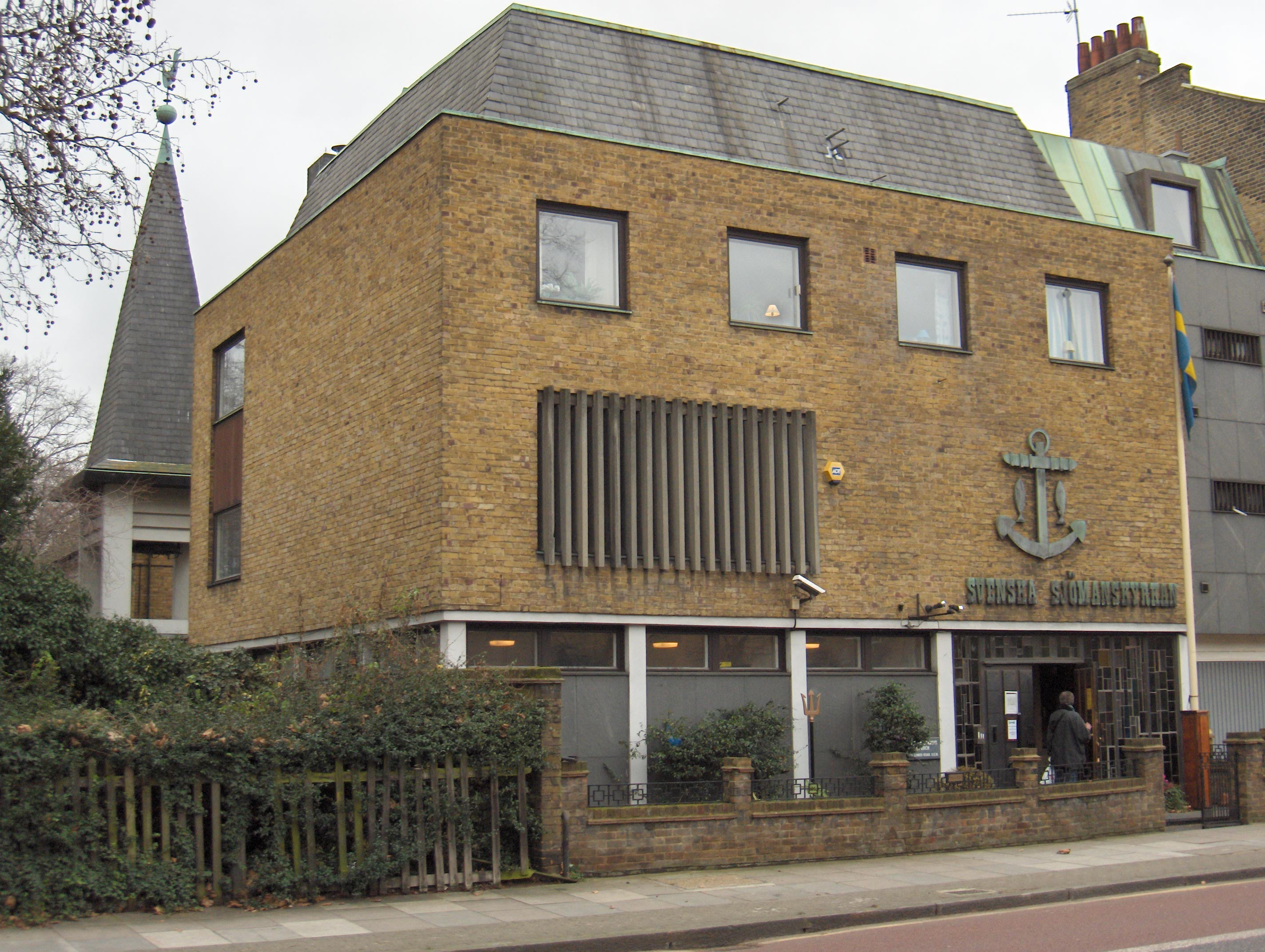 Swedish Seamen's Church, Lower Road, Rotherhithe, London. Architect Bent Jörgen Jörgensen